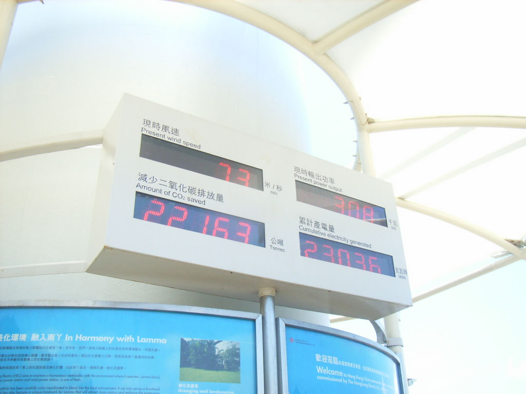 香港電燈南丫風采發電站